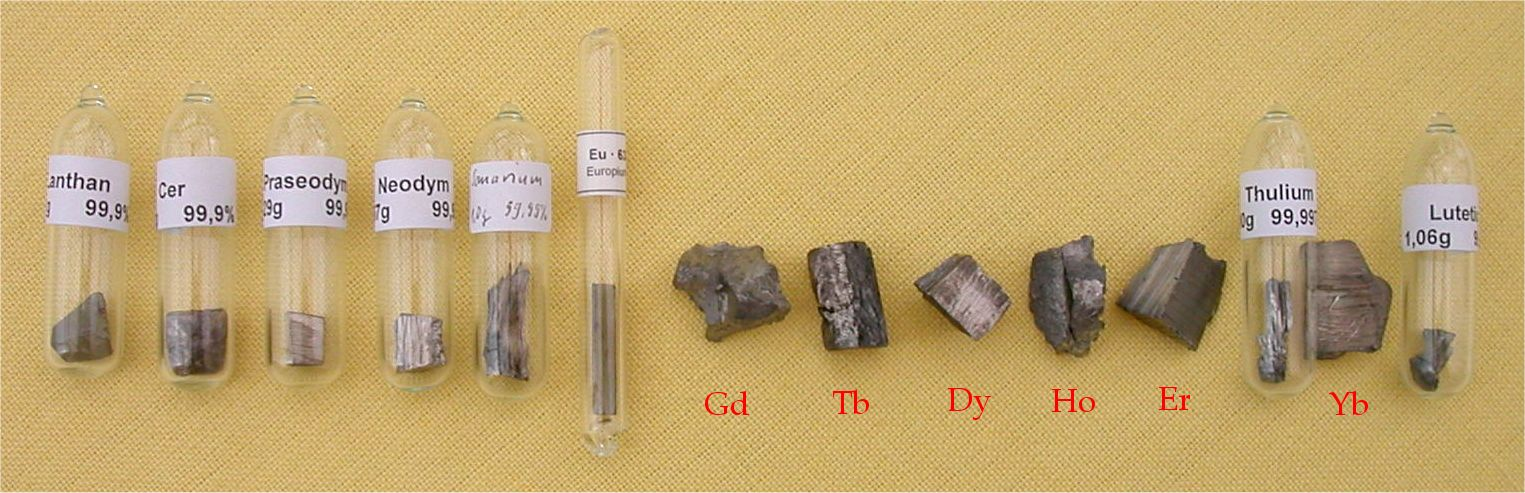 Assortment of lanthanoide group elements.